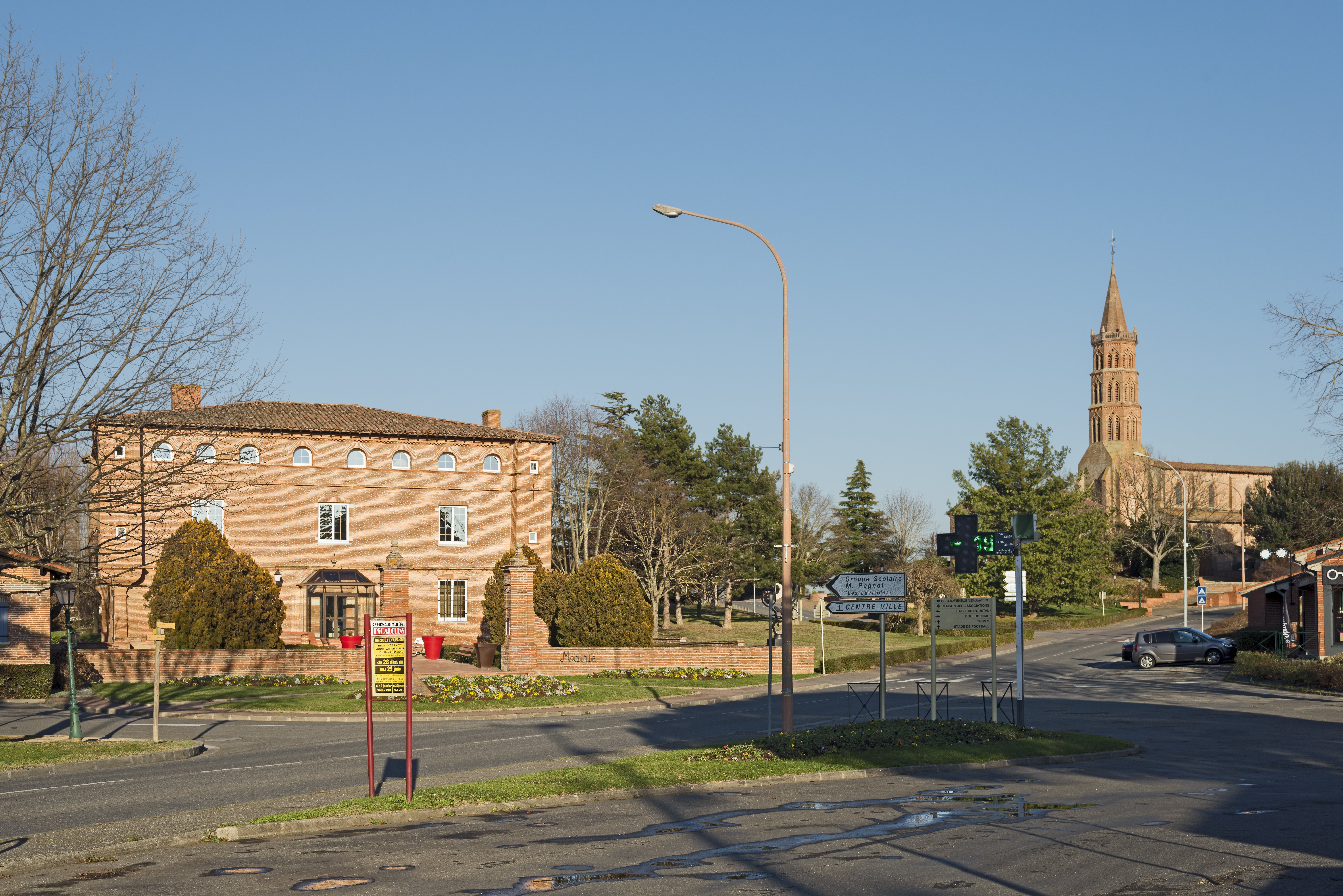 The historic center: The facade of the town hall and the St. Martin Church. Escalquens Haute-Garonne, France.